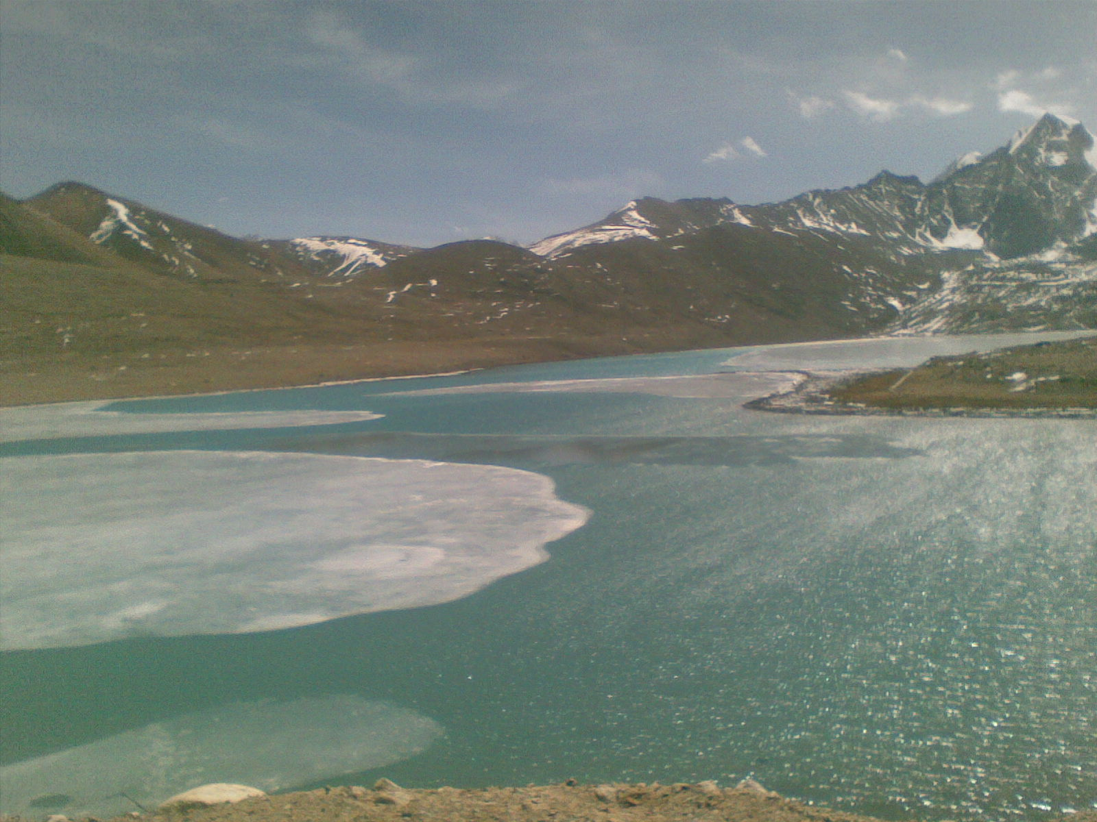 Gurudongmar Lake situated approx. 17200 feet above sea level, North Sikkim.